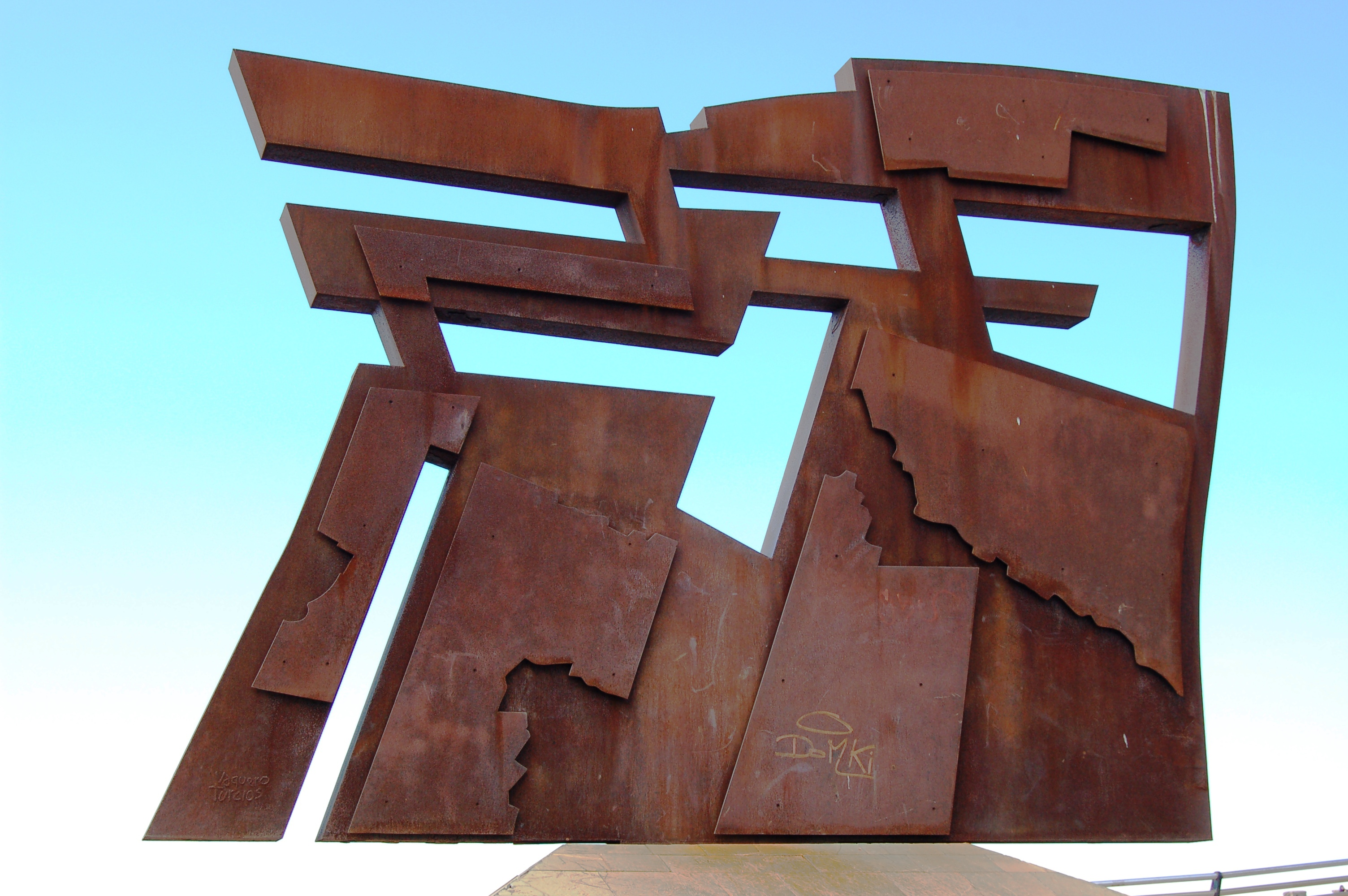 Se trata de una obra escultórica en la senda que sube a Cimadevilla